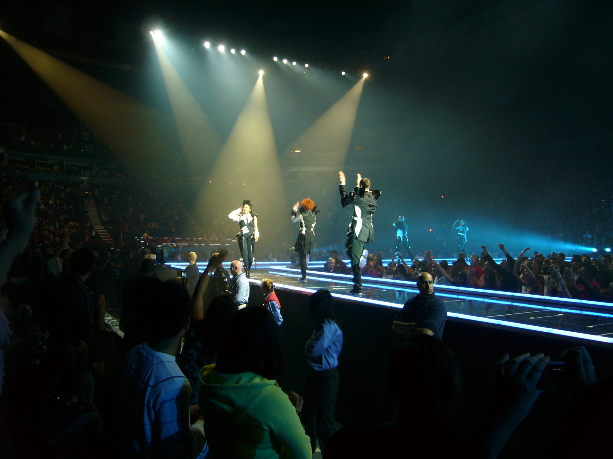 Janet Jackson, Vancouver